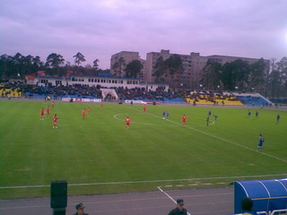 Haradzki Stadium in Barysaŭ